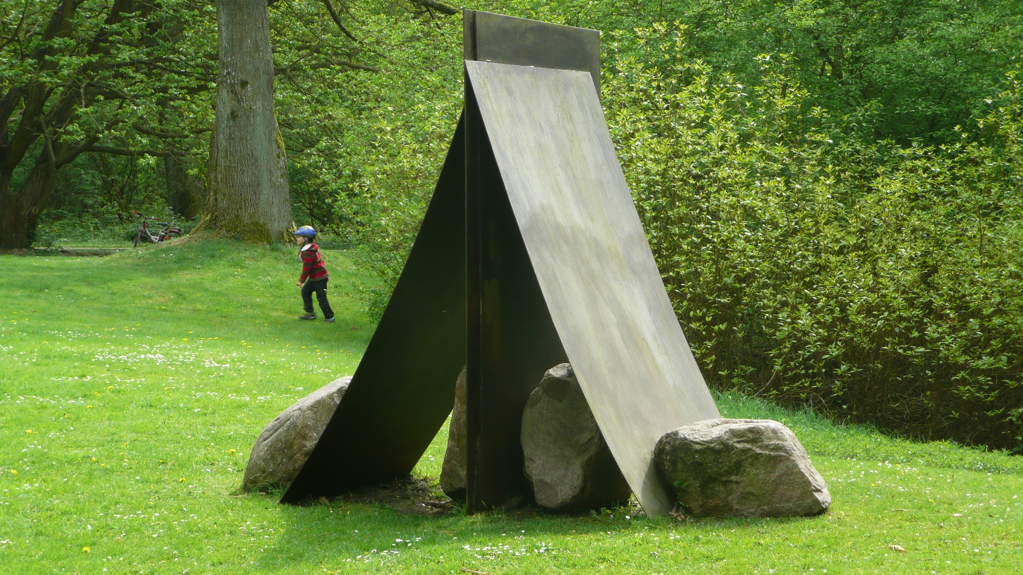 Lee Ufan: Relatum with four stones and four irons, 1978. Schlosspark Haus Weitmar, Bochum, Germany.